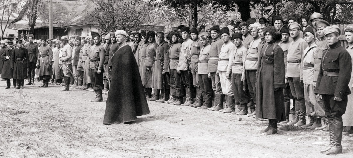 Symon Petlura in front of troop of Ukrainian Army. Kiev, May 1920